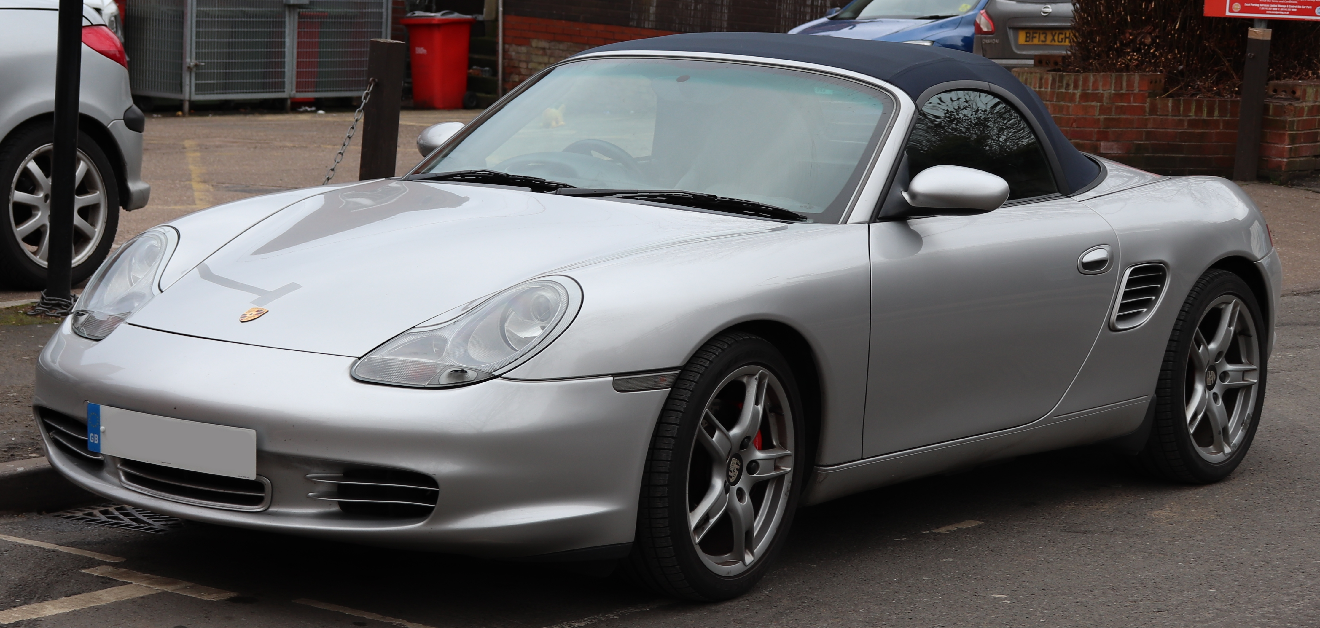 2004 Porsche Boxster S Tiptronic S 3.2 Front Taken in Leamington Spa